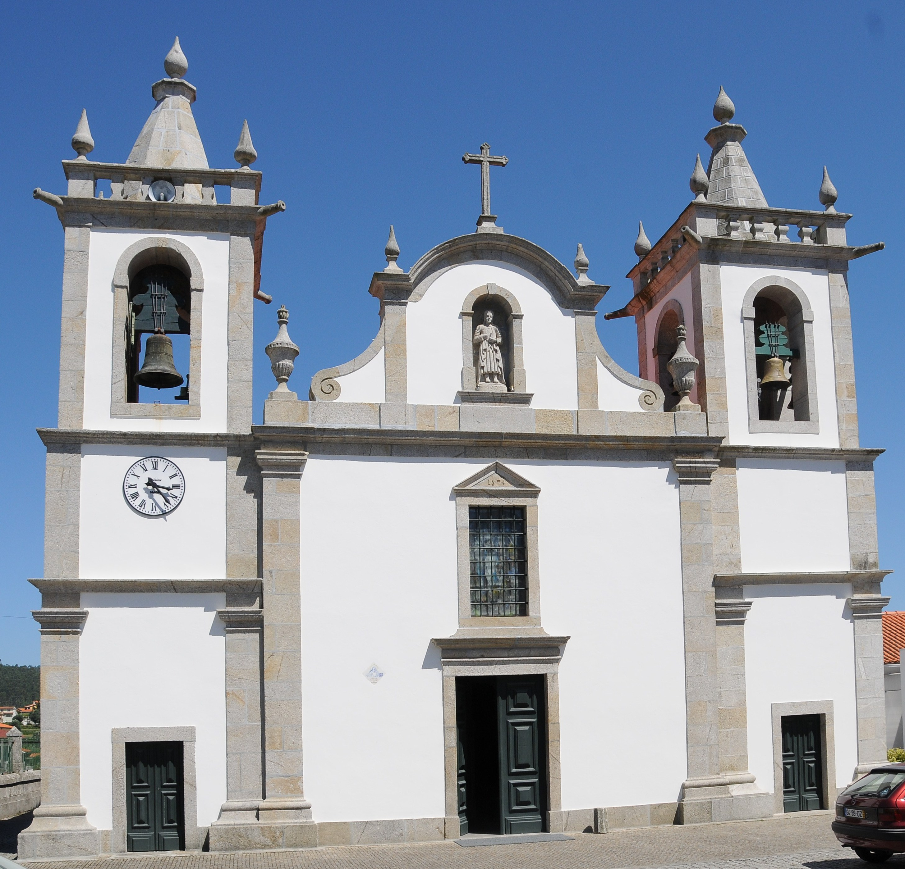 Curvos Church in Esposende Portugal